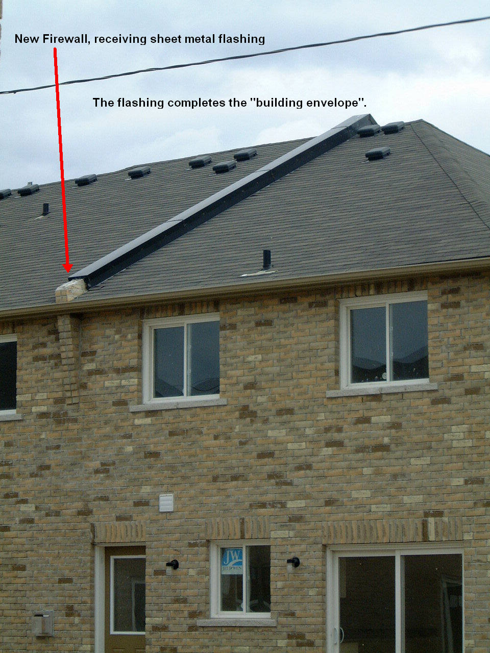 Firewall protruding through roof in Canadian apartment building.